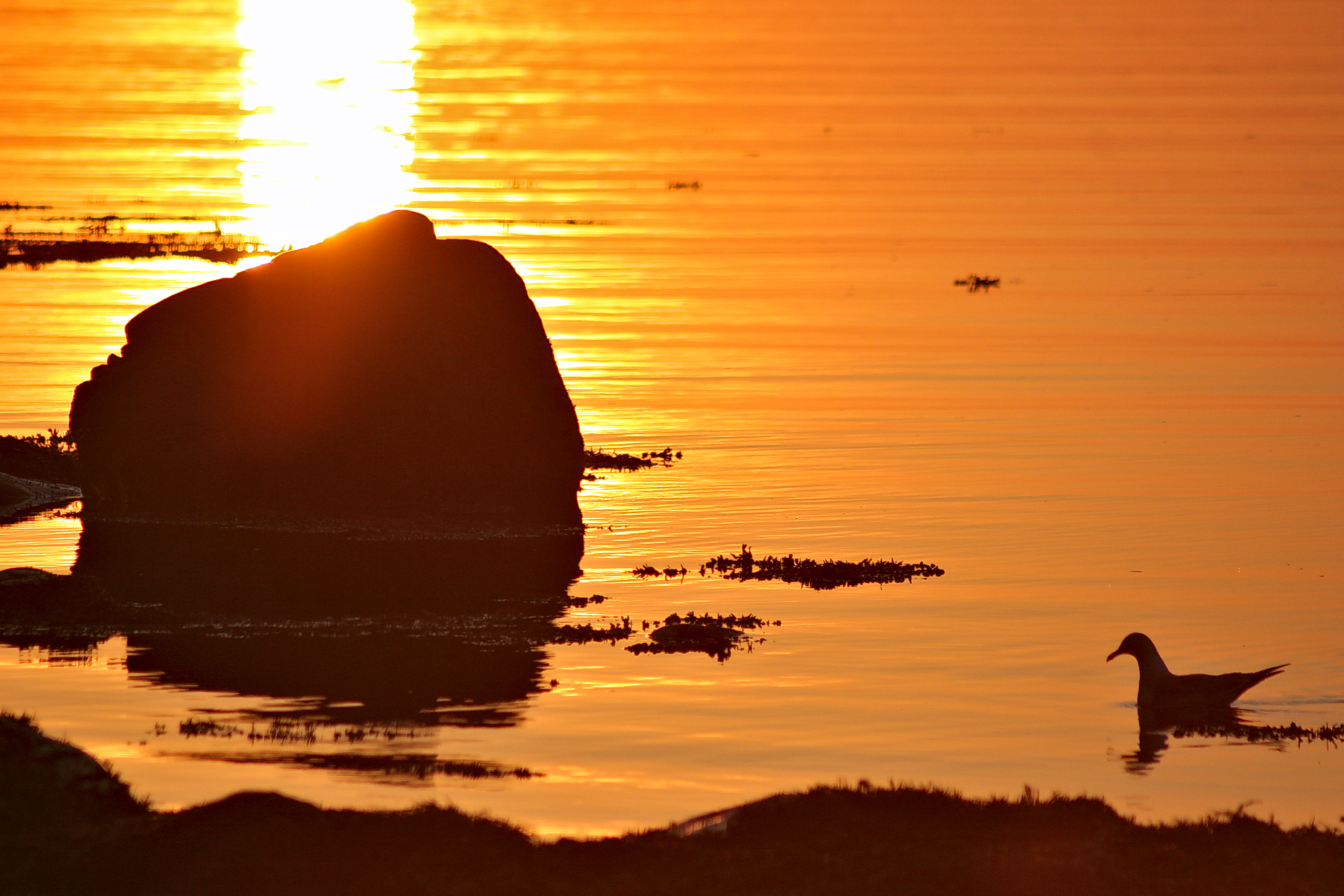 Ring-billed Gull swimming near a boulder during a sunset in Bic National Park (Québec). Scattered in bays and coves, boulders are an important part of the park's landscape and geology, and provide spots for resting or wing-drying for a variety of animals.